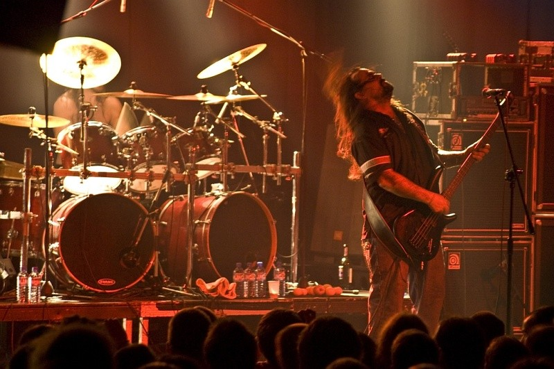 Winterfest 2009, Deicide, Warszawa, Progresja, 22.01.2009